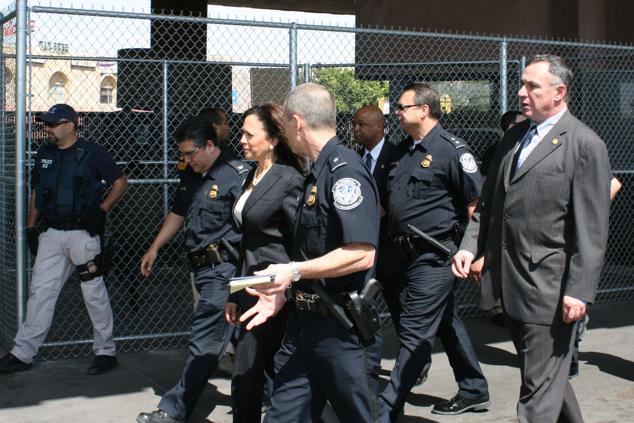 Attorney General Kamala D. Harris joined by representatives of Imperial Valley Attorney General Kamala Harris joins state leaders to tour border and discuss strategies to combat transnational gang crime. Imperial – March 24, 2011.